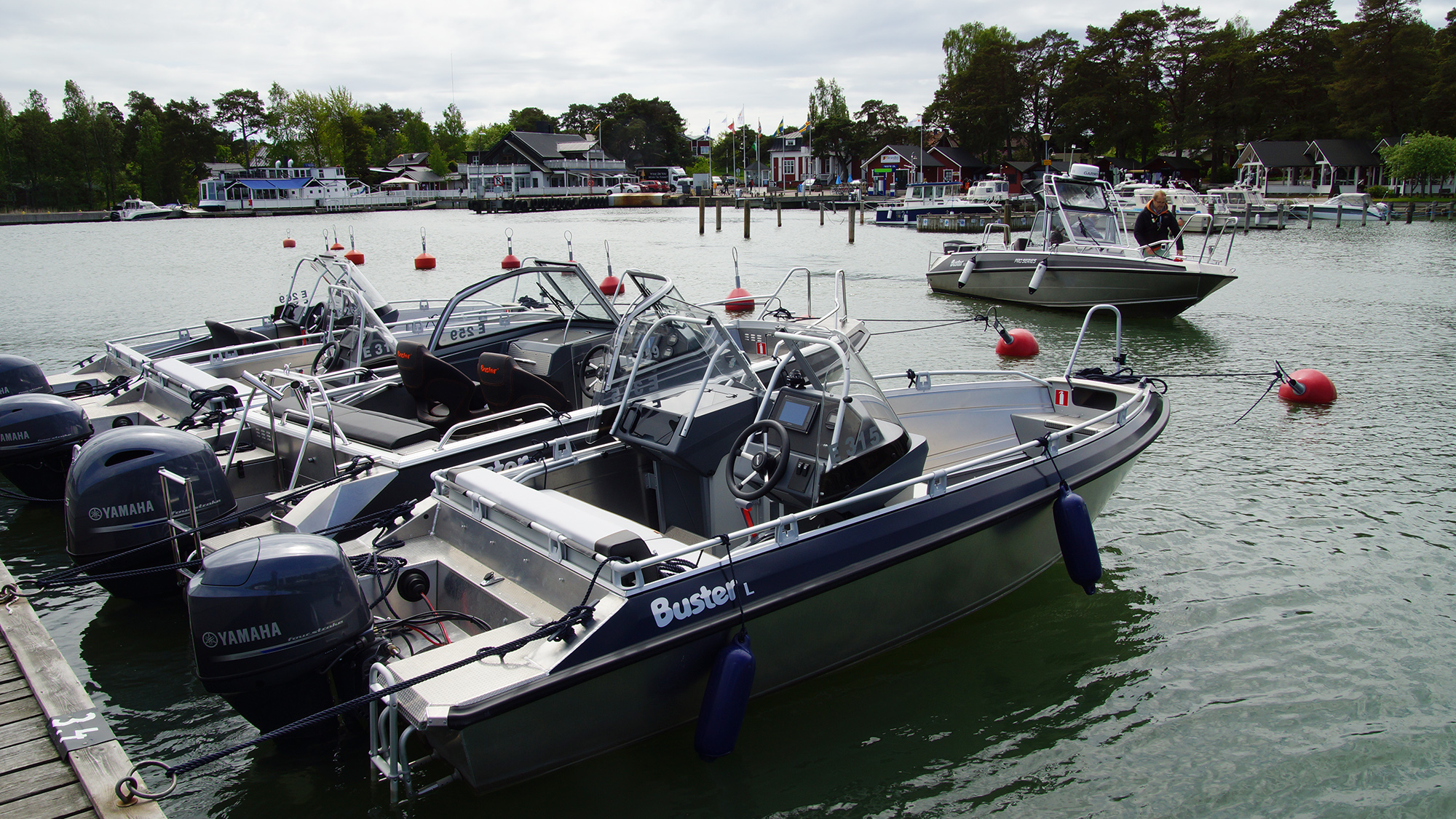 Nauvo Marina, The Archipelago Sea, Finland. Nagu Marina in Nagu village centre is the premier marina in the South West Archipelago.